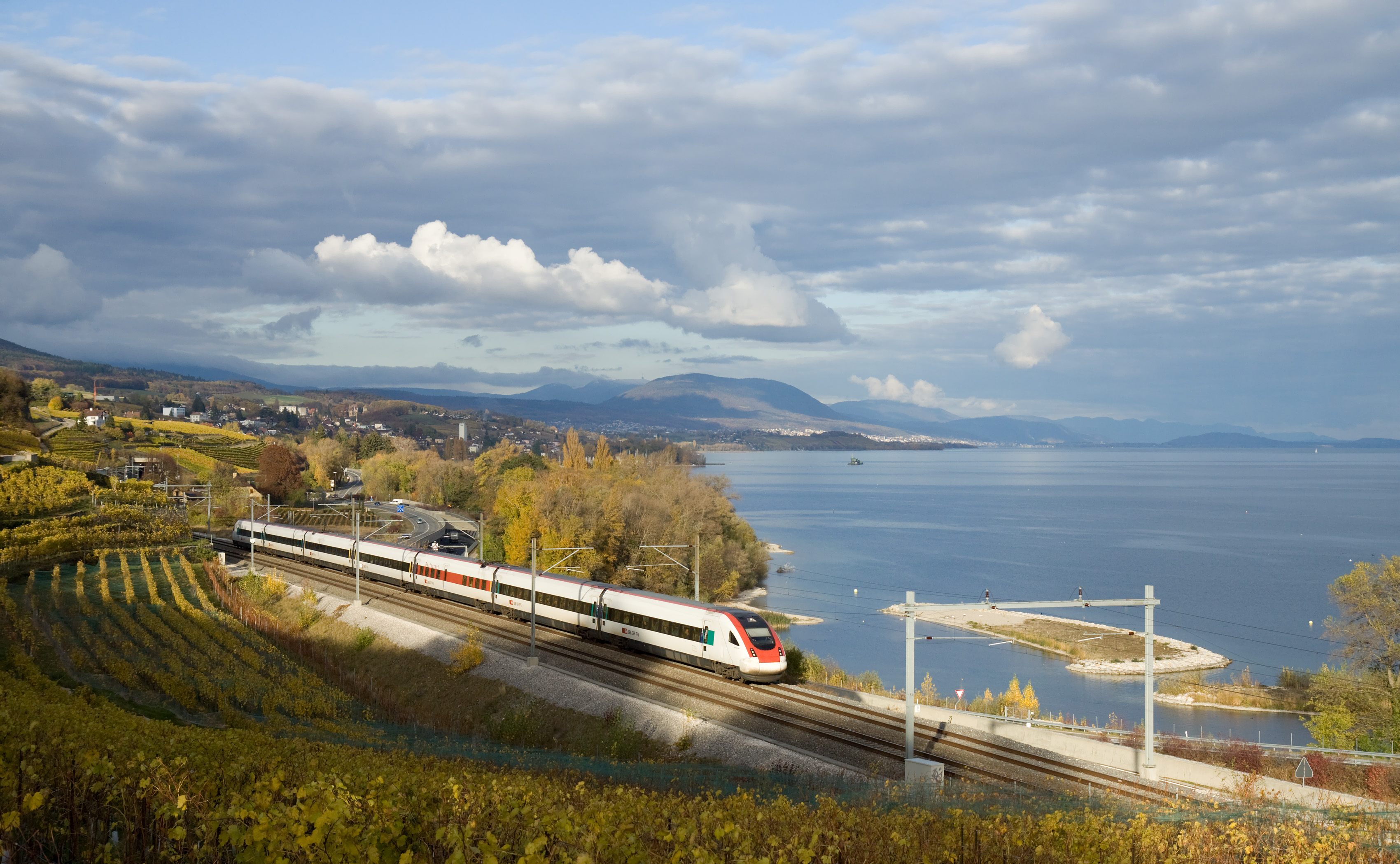 SBB ICN train on the Jura foot railway line near Vaumarcus